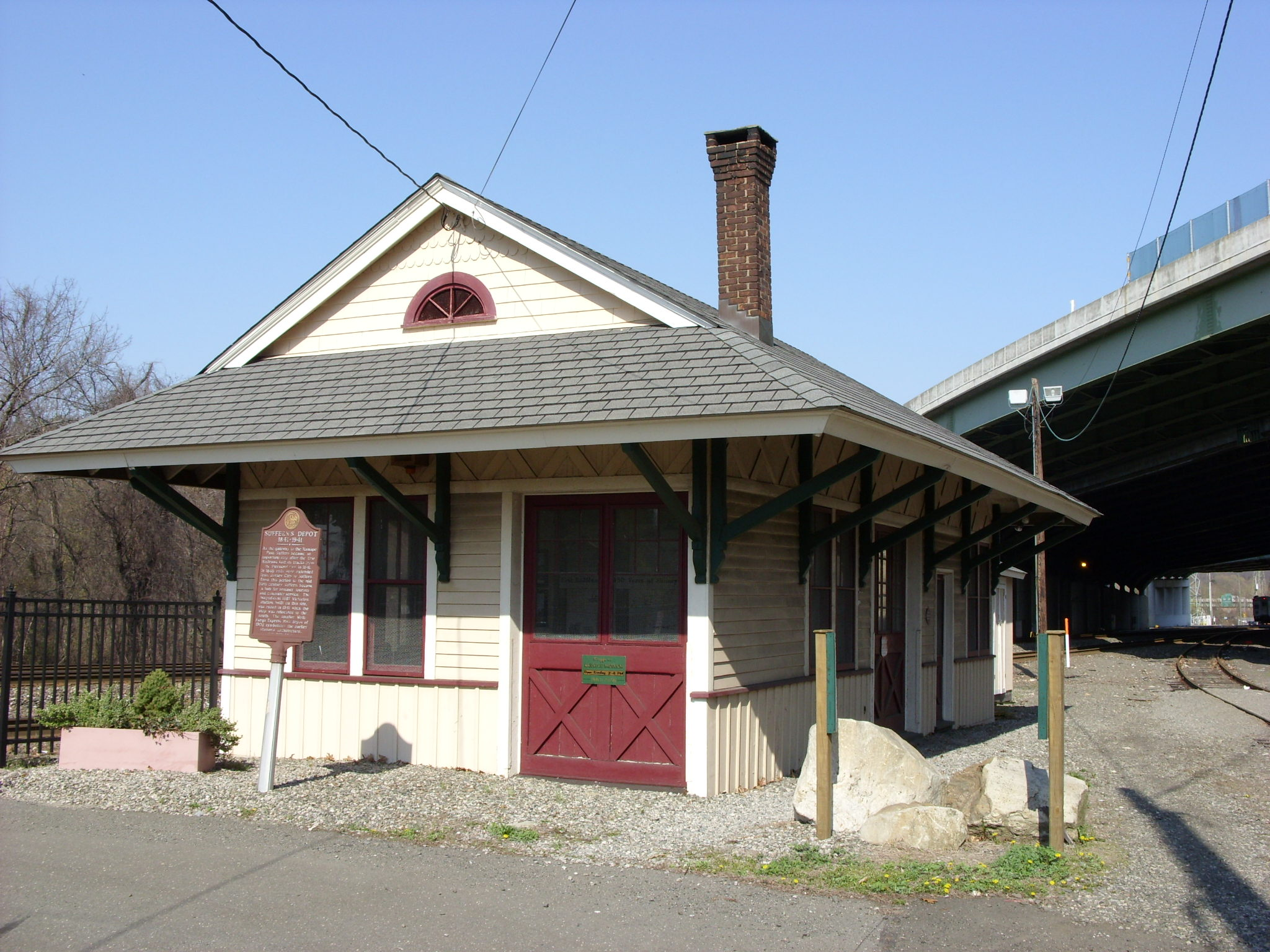 The station for Suffern, New York along the Erie Railroad's Piermont Branch used by the Railway Express Agency. The Piermont Branch alignment of tracks is visible to the right of the building with the Thruway overhead.